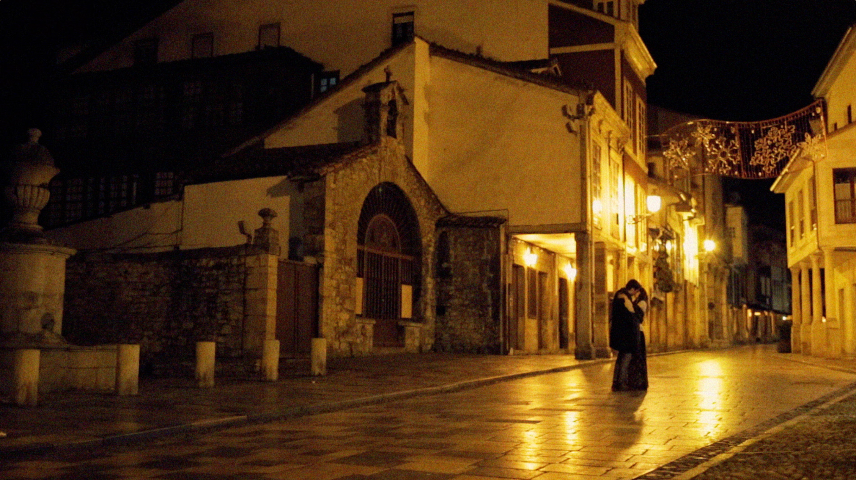 Still 8 from the film Advent (Ad-vientu) directed by Roberto F. Canuto & Xu Xiaoxi in 2016, with actors David Soto Giganto & Ici Diaz.